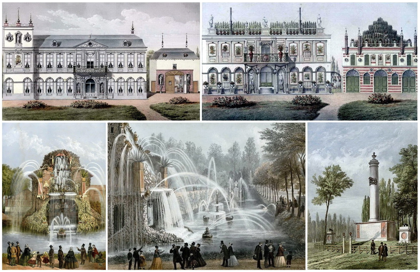 A montage of 5 coloured lithographs of Castle Vaeshartelt and its gardens in Maastricht, Netherlands. The prints were made by Th. Müller and printed by Lemercier in Paris for an album titled Album dedié a mes amis et mes enfants that Petrus Regout - owner of Vaeshartelt - had put together around 1860 for family and friends. It mainly contained prints of his real estate and some portraits. Throughout the 1860s various versions were printed. The montage was put together by Kleon3 using files that were uploaded to Wikimedia Commons with a free license: File:Kasteel Vaeshartelt, noordvleugel (album P Regout, 1860-70).jpg File:Kasteel Vaeshartelt, verlengde noordvleugel (album P Regout, 1860-70).jpg File:Fontein Kasteel Vaeshartelt, Maastricht (prent album P Regout, 1865).jpg File:Kasteel Vaeshartelt, Grand Canal (album P Regout, 1860-70).jpg File:Kasteel Vaeshartelt, monument Willem II (album P Regout, 1860-70).jpg